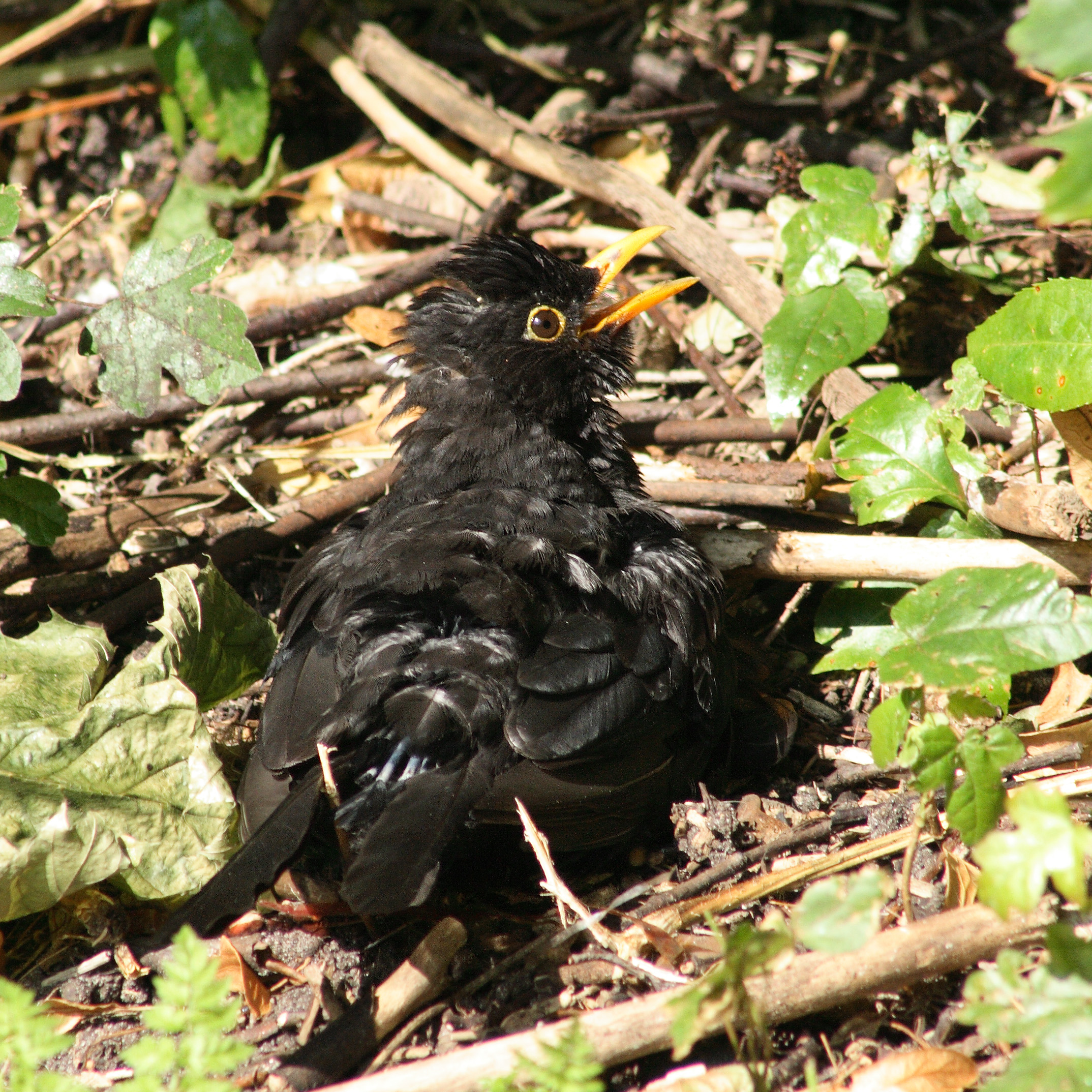 Male Common Blackbird (Turdus merula), sunbathing.